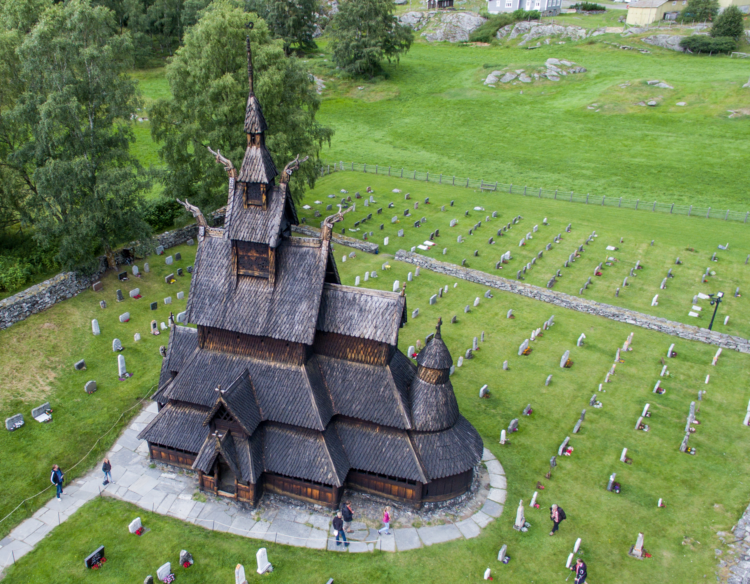 Norway-Drone-20160727-0022